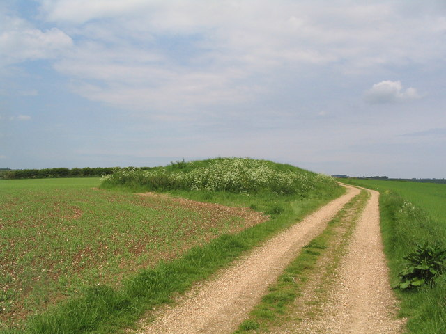 Grim's Mound: Bronze Age round barrow Adding my picture to the many others of this not-too-impressive feature.